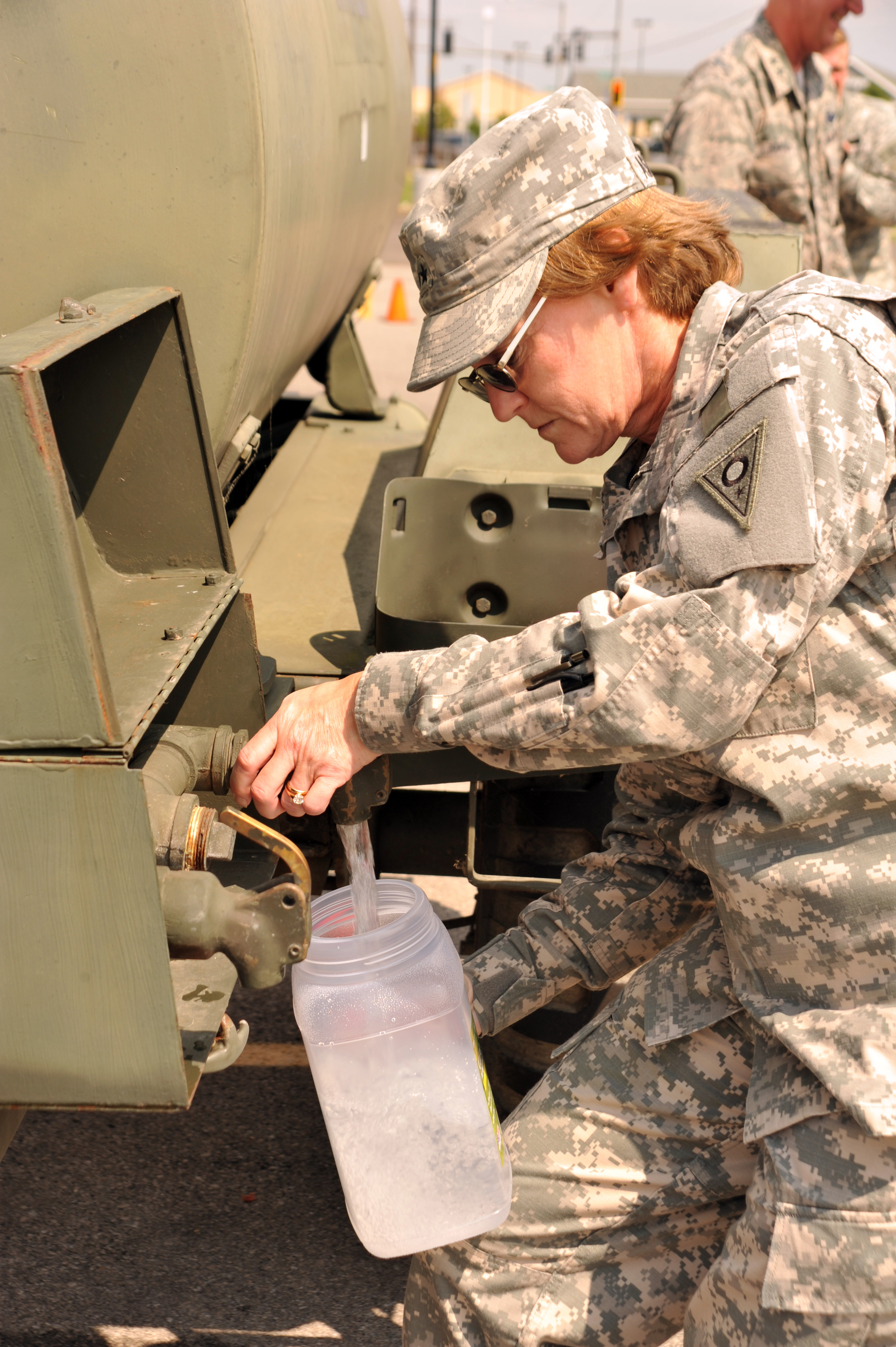 Maj. Gen. Deborah Ashenhurst, Adjutant General, Ohio National Guard, assists with filling water jugs for residents of Holland, Ohio, Aug. 3, 2014. Ohio Gov. John Kasich declared a state of emergency Aug. 2, 2014, after a harmful algae bloom in Lake Erie contaminated the area’s public water system. Members of the Ohio Army and Air National Guard have been activated to stand up water distribution sites for those communities impacted until the state of emergency is lifted. (Ohio Air National Guard photo by Master Sgt. Beth Holliker/Released)